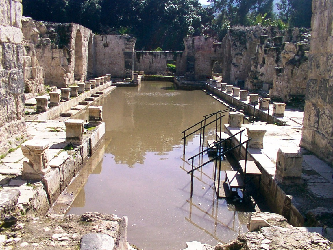 hamat gader\roman bath